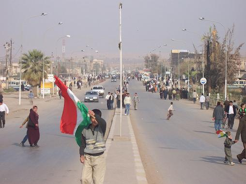 Rahimawa, Kirkuk.